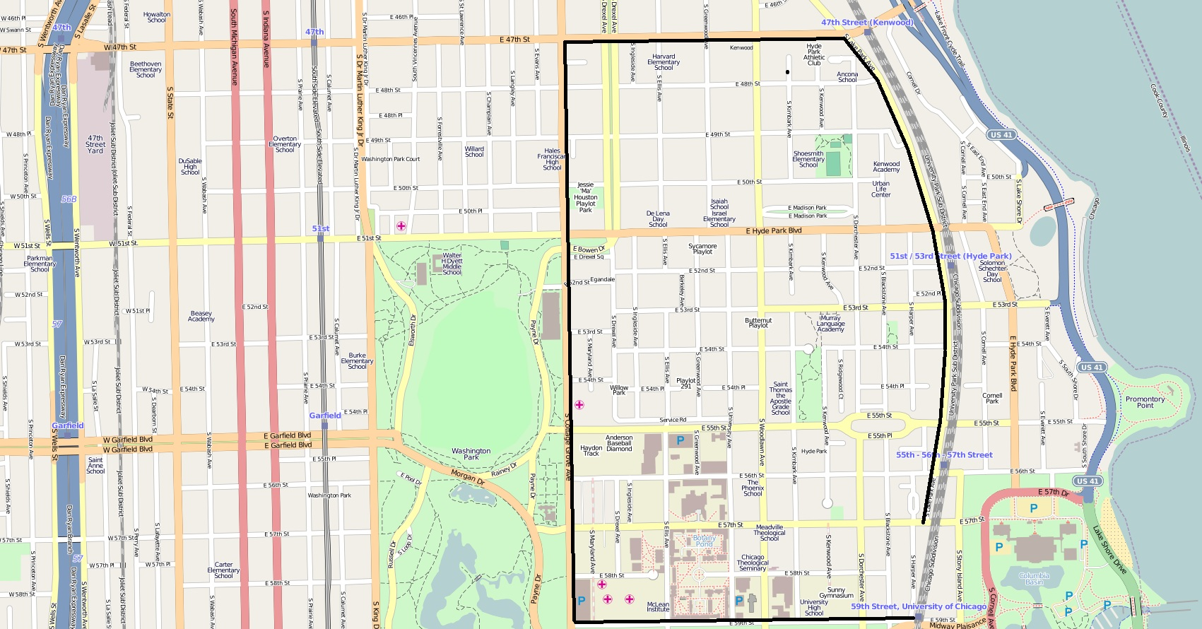 rough boundaries of the Hyde Park-Kenwood Historic District This map may be incomplete, and may contain errors. Don't rely solely on it for navigation.